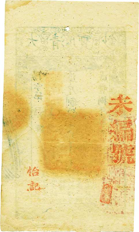 A Da-Qing Baochao (大清寶鈔) cash-note issued by the Ministry of Revenue of the Manchu Qing Dynasty during the reign of the Xianfeng Emperor denominated in "Cash" (文).